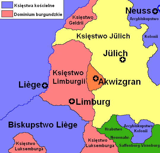 Duchy of Limburg in 1447